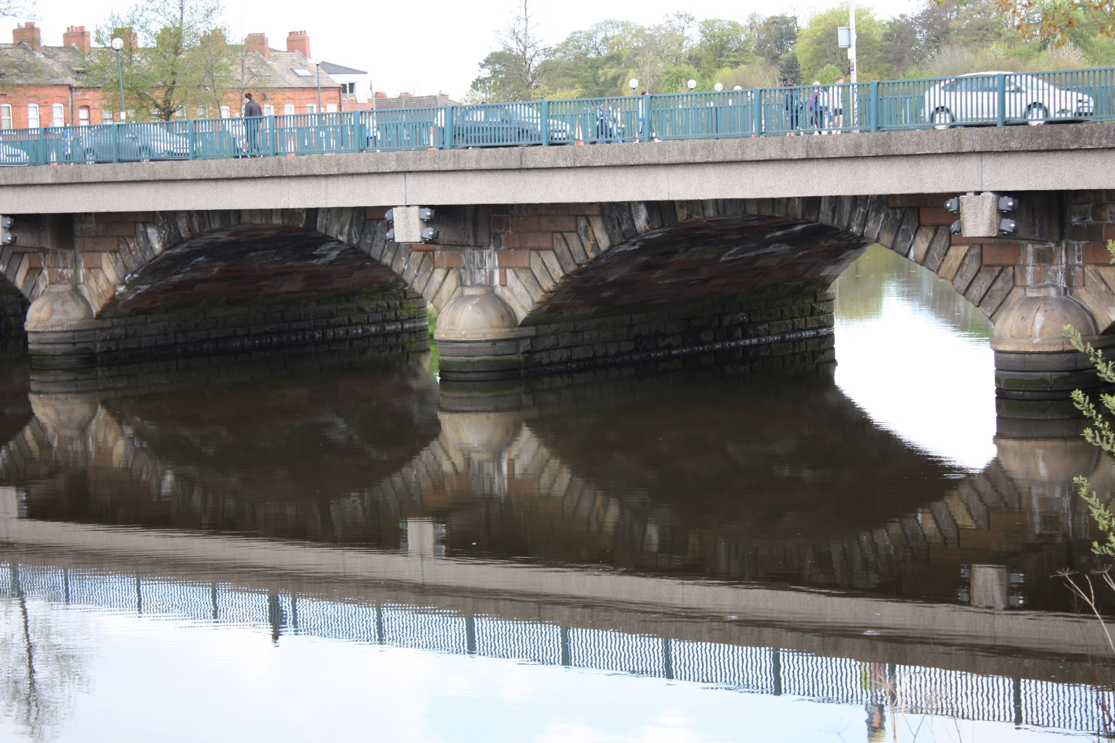 Ormeau Bridge (over the River Lagan), Ormeau Road, Belfast, Northern Ireland, May 2010 (viewed from Annadale Embankment)